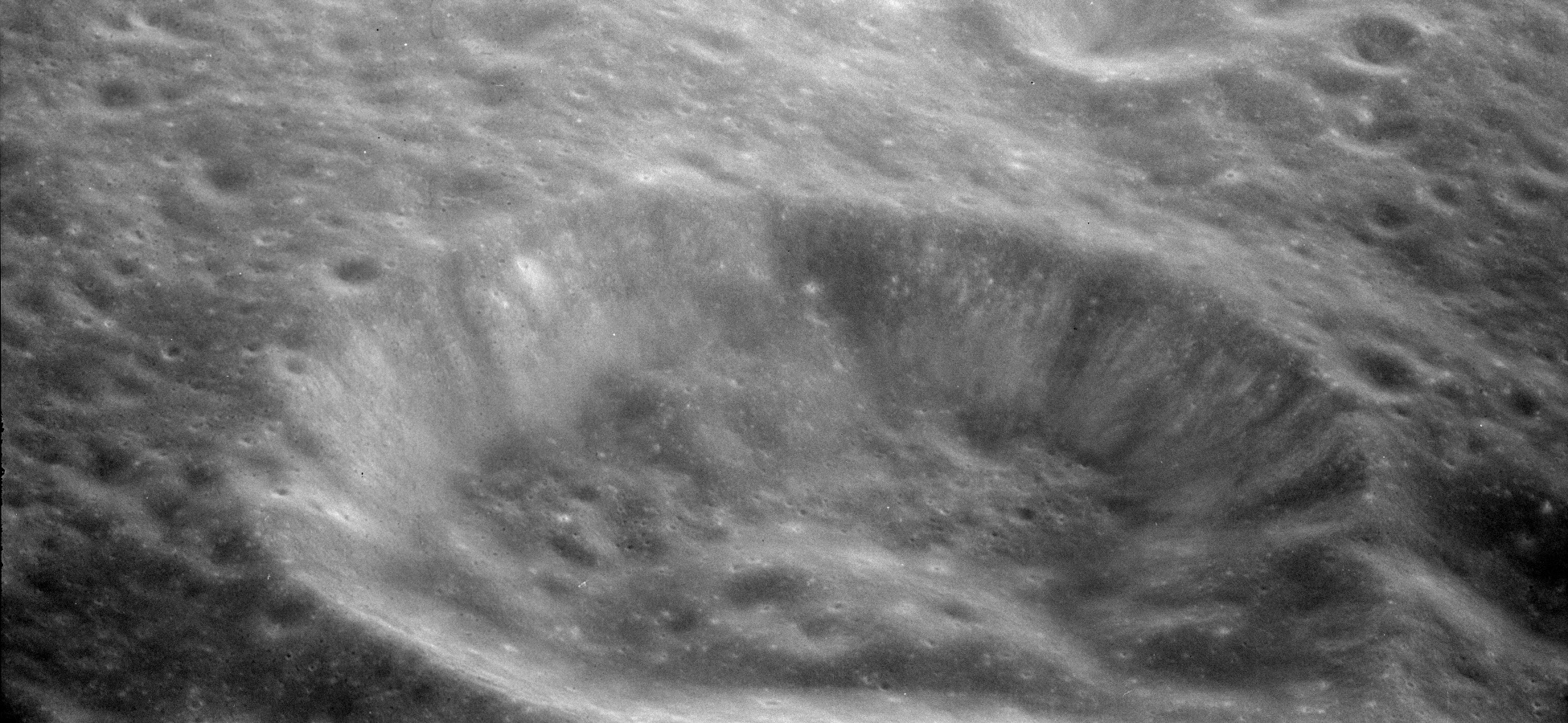 Oblique view of Pannekoek A crater, 29 km diameter, on the far side of the moon.